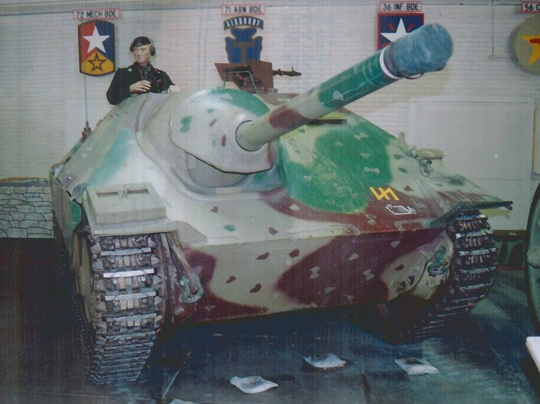 Photo of a Hetzer tank destroyer from the Texas Military Forces Museum in Austin Texas. Taken by me in 2003. This tank was used in WWII by the German military and afterwards by the Swiss.